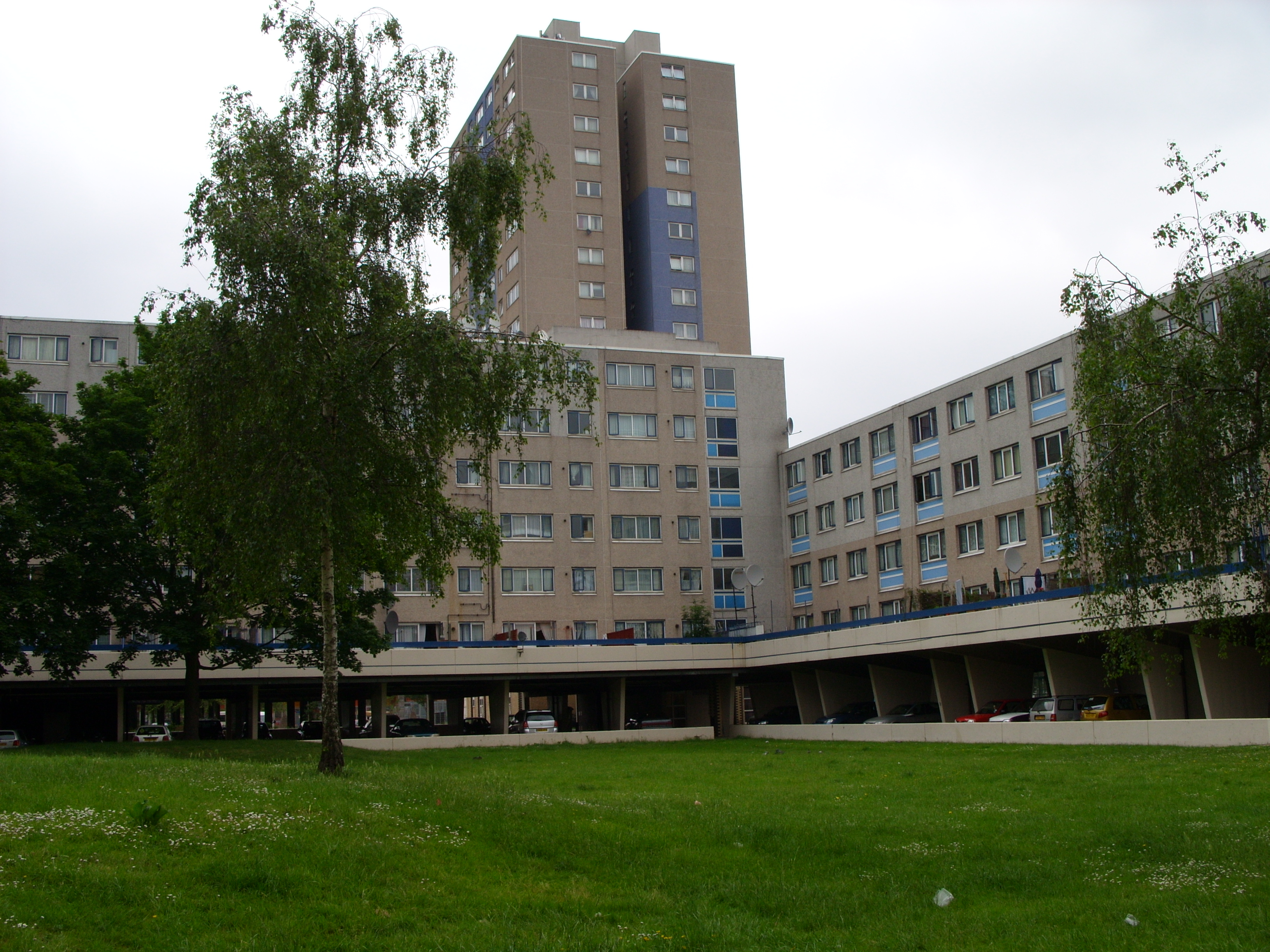 Hawkinge, Broadwater Farm, London N17